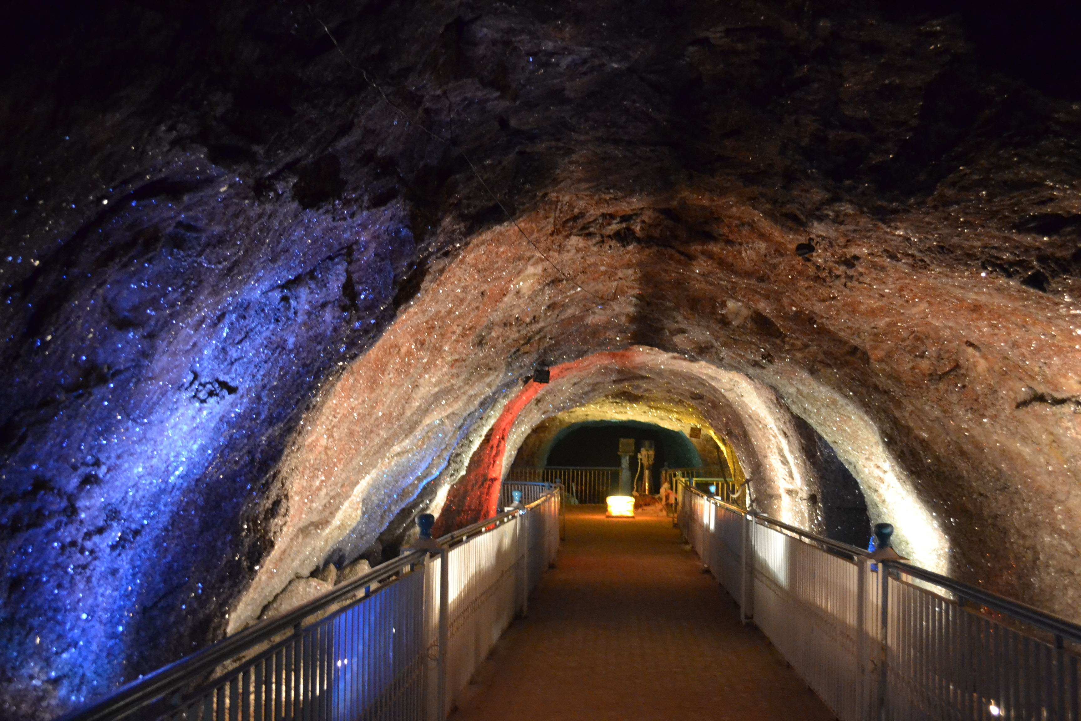 Crystal Deposits exhibit can be seen on the 7th floor (1 floor below the entrance level) ... only certain guides have access/key to the exhibit. Check first to see who can show you this place as this is best part of the tour